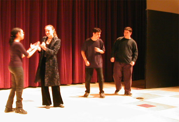 The Yellow Submarine Improv Troupe at one of its performances